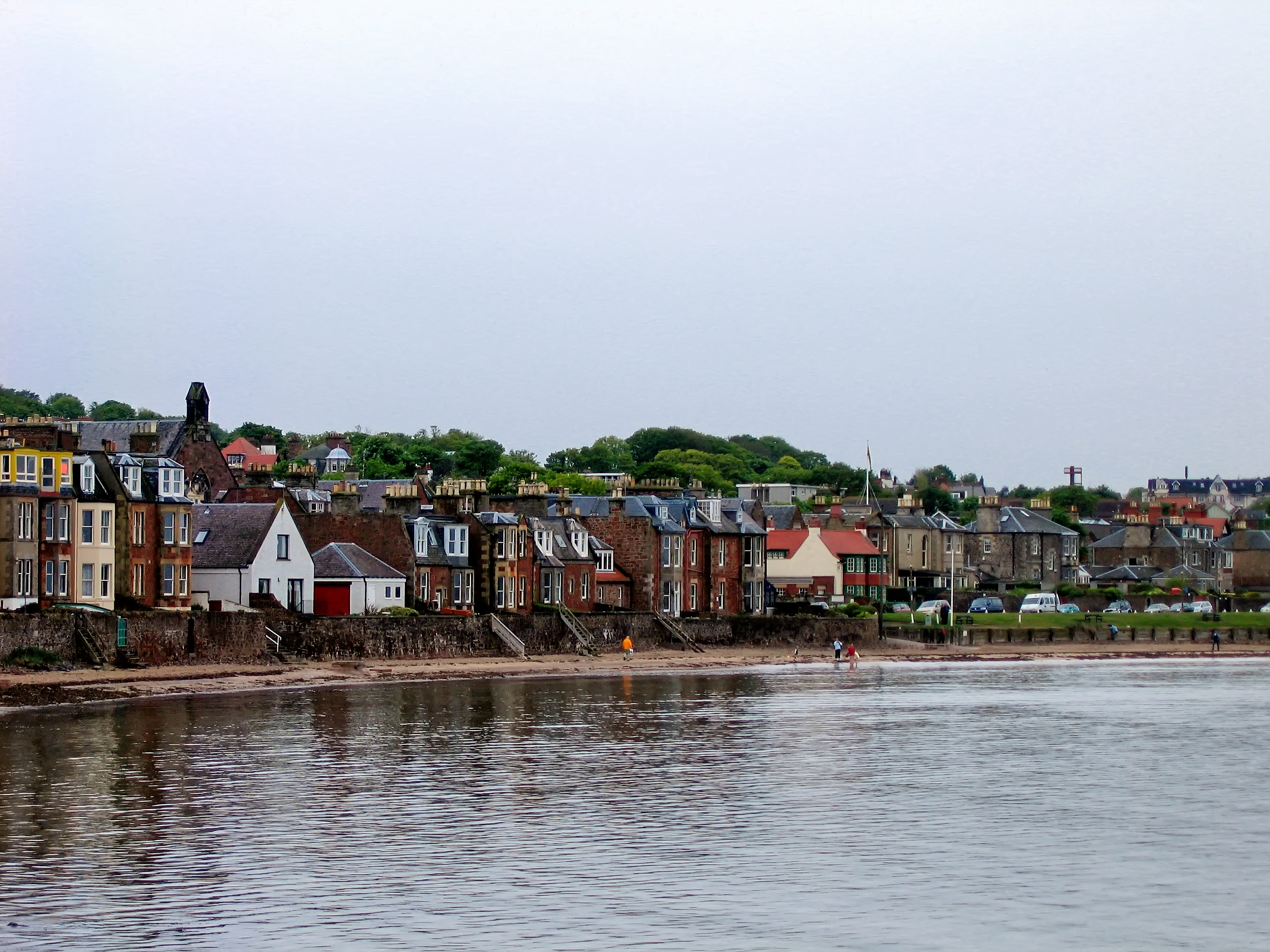 North Berwick, East Lothian, Scotland